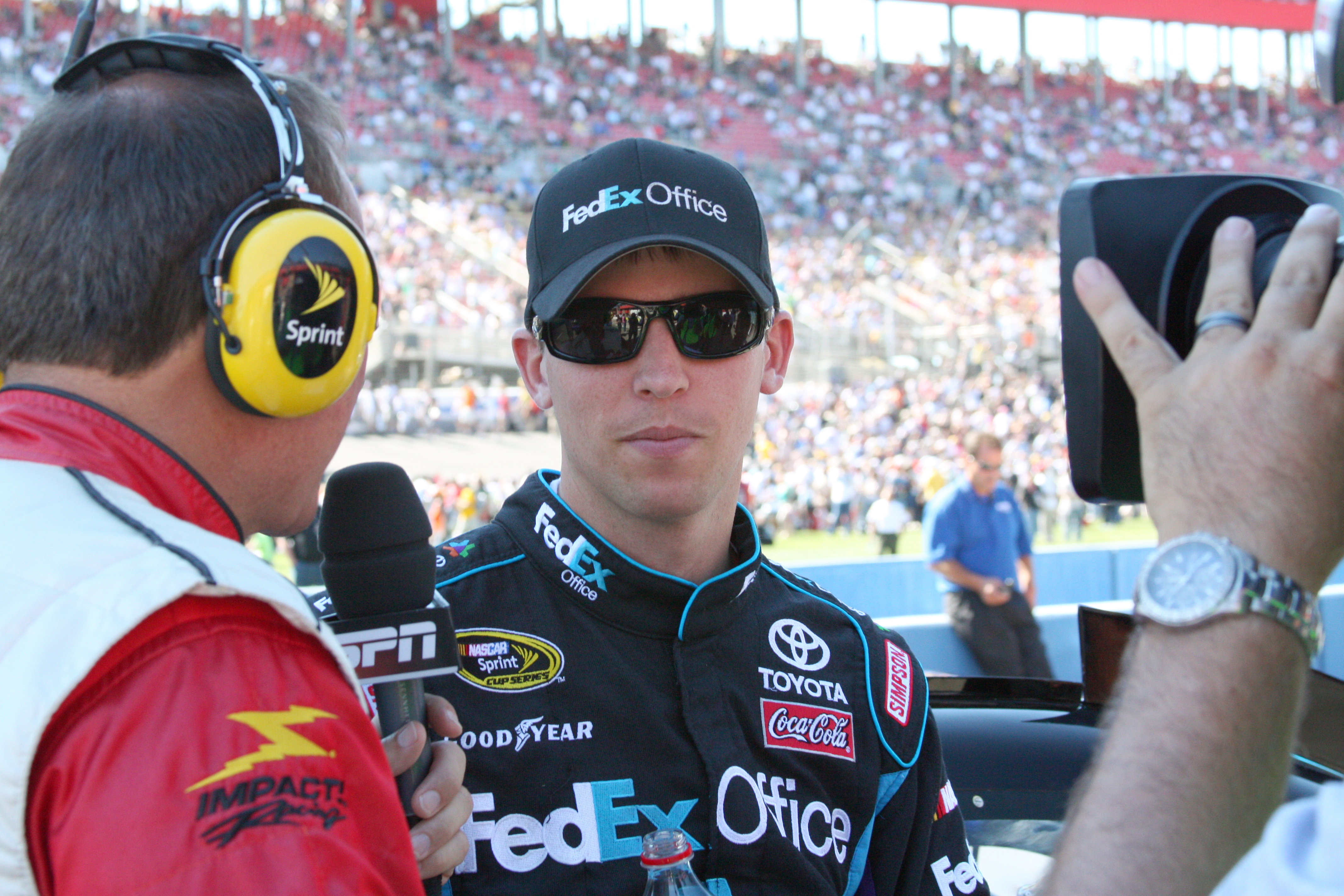 Denny Hamlin at Auto Club Speedway in 2010